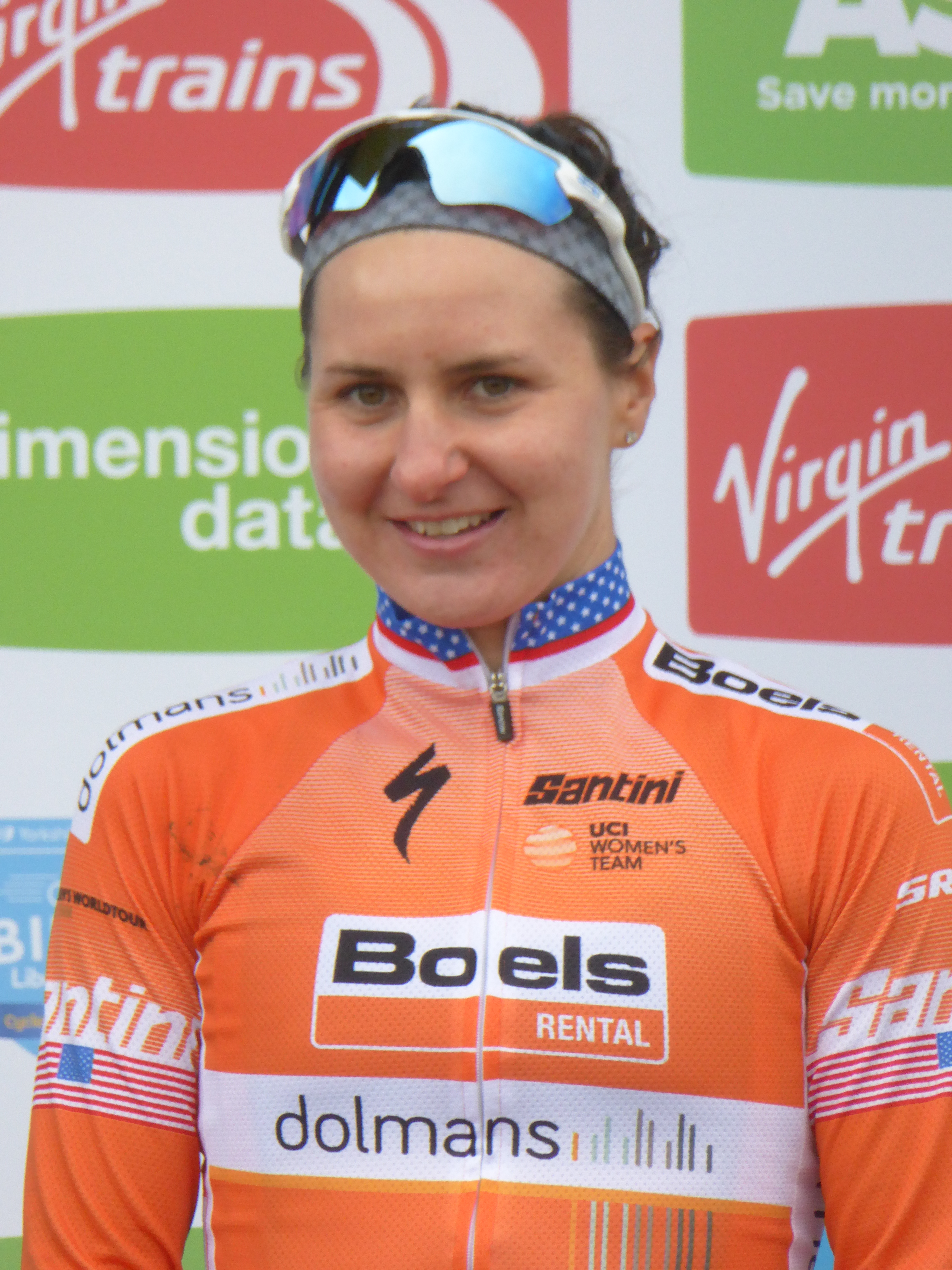 The winner of Stage 2 of the 2018 Women's Tour de Yorkshire, Megan Guarnier of the Boels-Dolmans team.